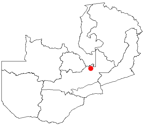 Mkushi, Zambia Location Map; created with the GIMP.